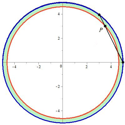 Exampe of Holditch's theorem applied to a circle